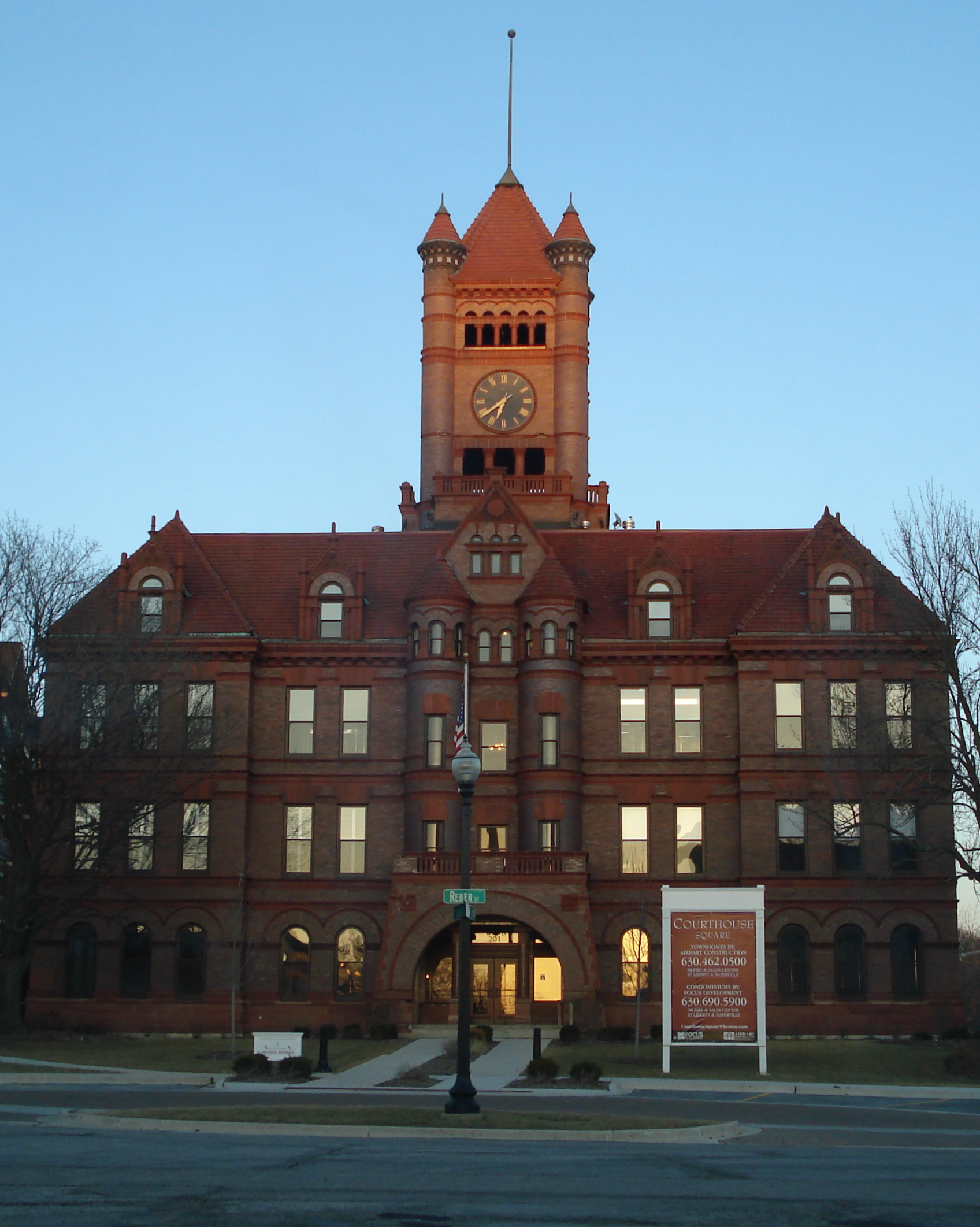 The Old DuPage County Courthouse in Wheaton, Illinois.